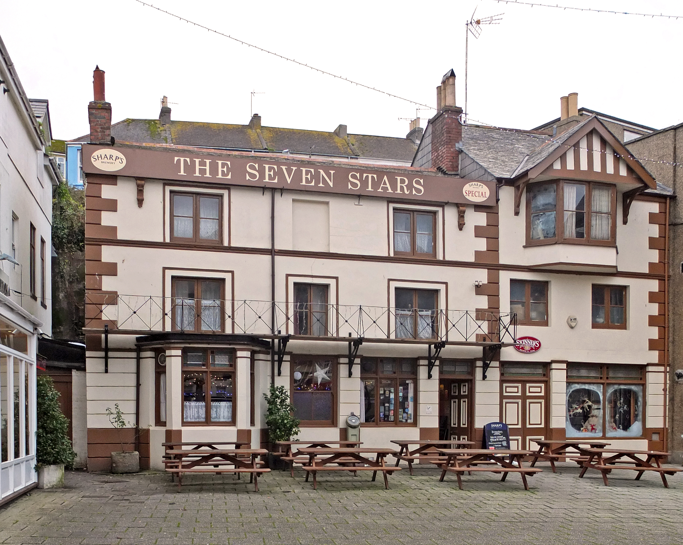 Seven Stars, The Moor, Falmouth